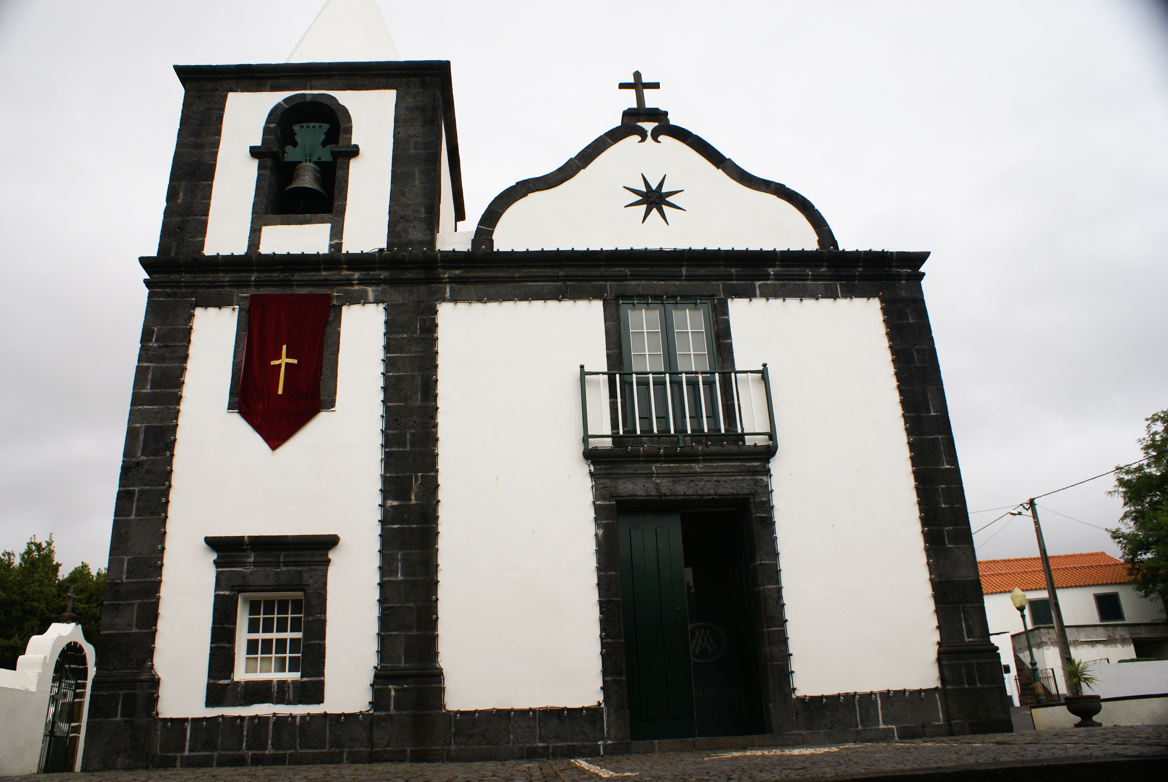 Igreja de Nossa Senhora das Dores, fachada, Criação velha, concelho da Madalena, ilha do Pico, Açores, Portugal